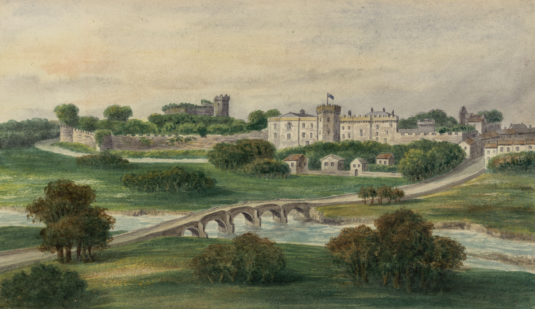 Numerous drawings and landscapes of villages, towns and landmarks in Wales and Ireland. By French artist Alphonse Dousseau.